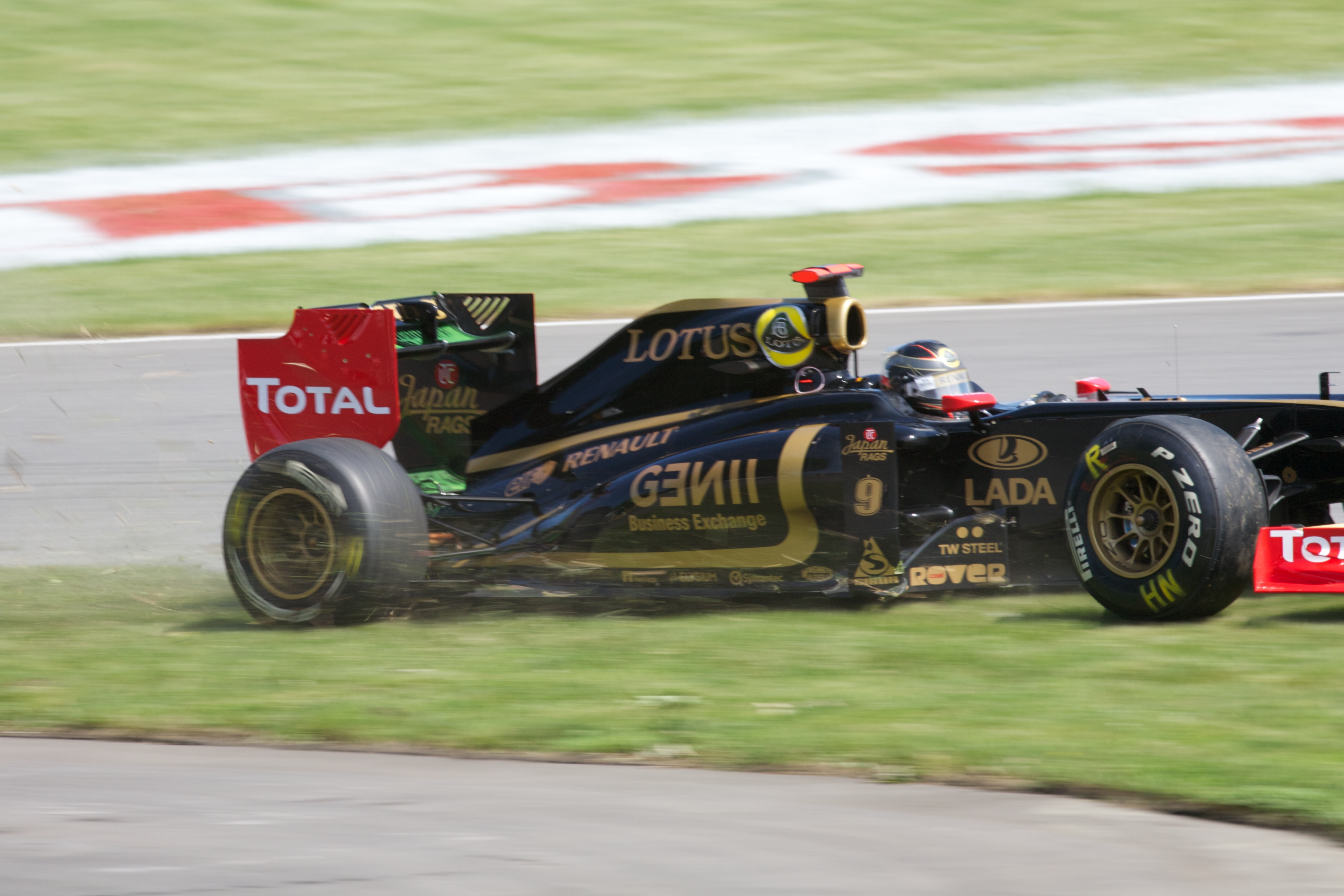 2011 Canadian Grand Prix